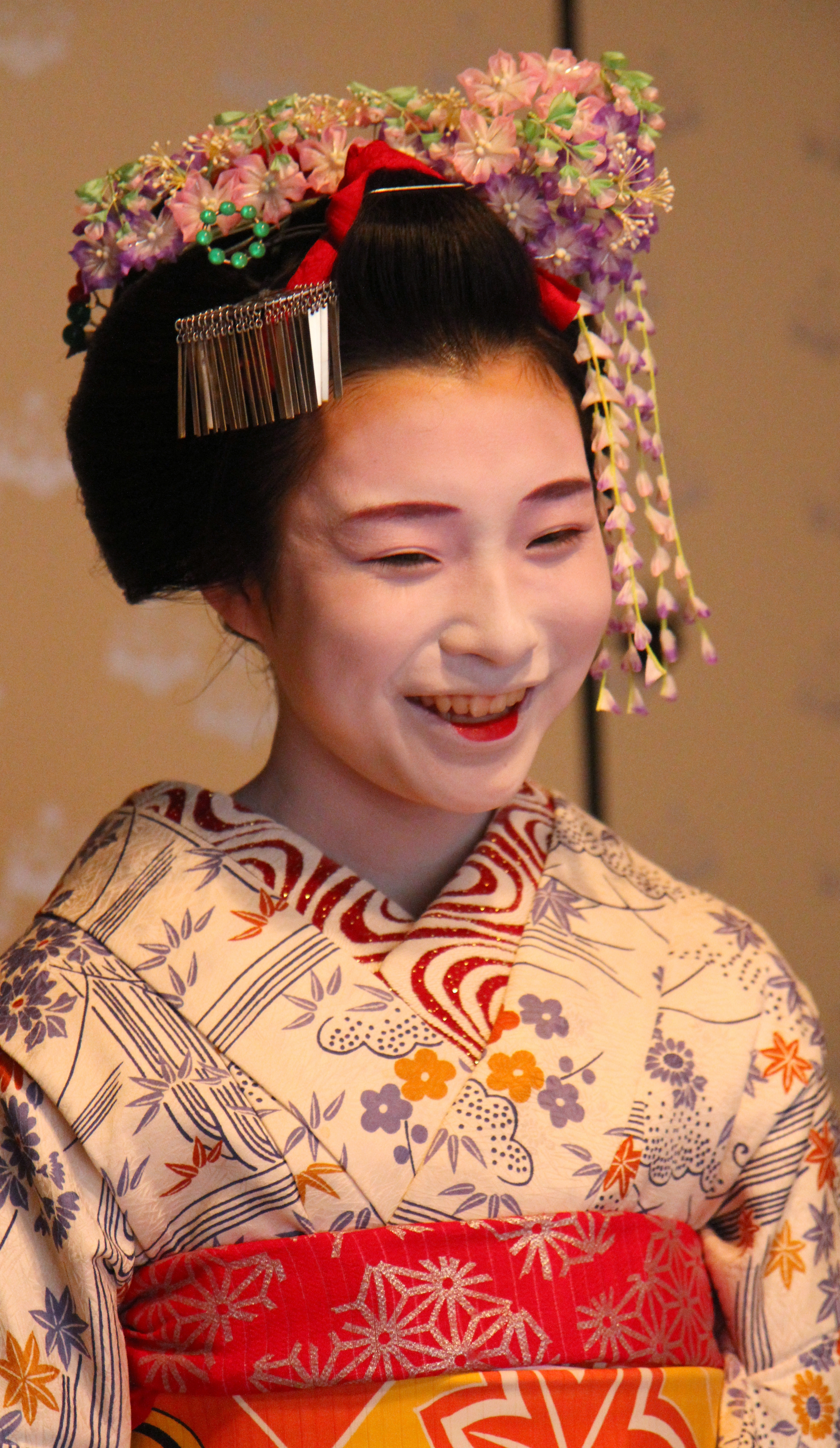 Maiko Mameroku at a private banquet (o-zashiki). Notice dangling kanzashi (she is a 1st-year) and a green hairpin (Gion-Koubu hanamachi's mark). Mameroku or Arai okiya.